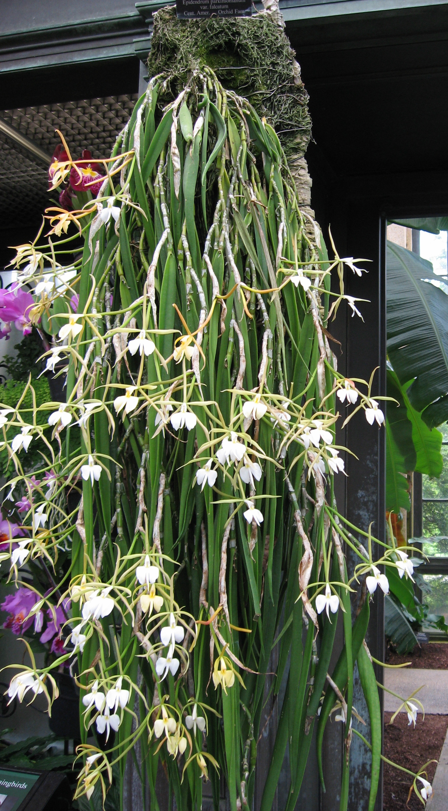 A picture of Epidendrum parkinsonianum var. falcatum.